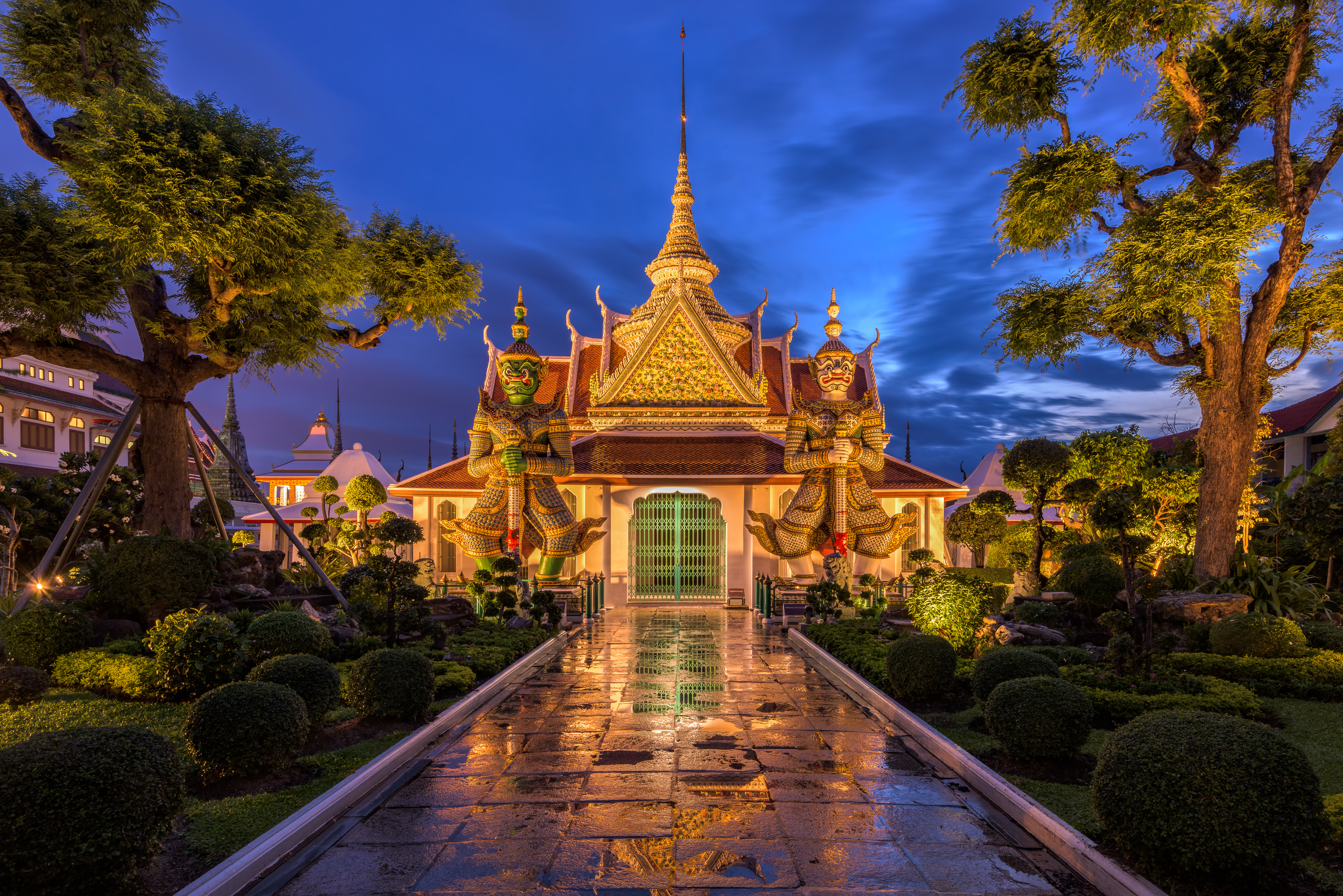 The sculptures of two mythical giant demons, Thotsakan (the green one) and Sahatsadecha (the white one), guarding the eastern gate of the ubosot (main chapel) of Wat Arun Ratchawararam Ratchaworamaha Wihan, Bangkok Yai District, Bangkok